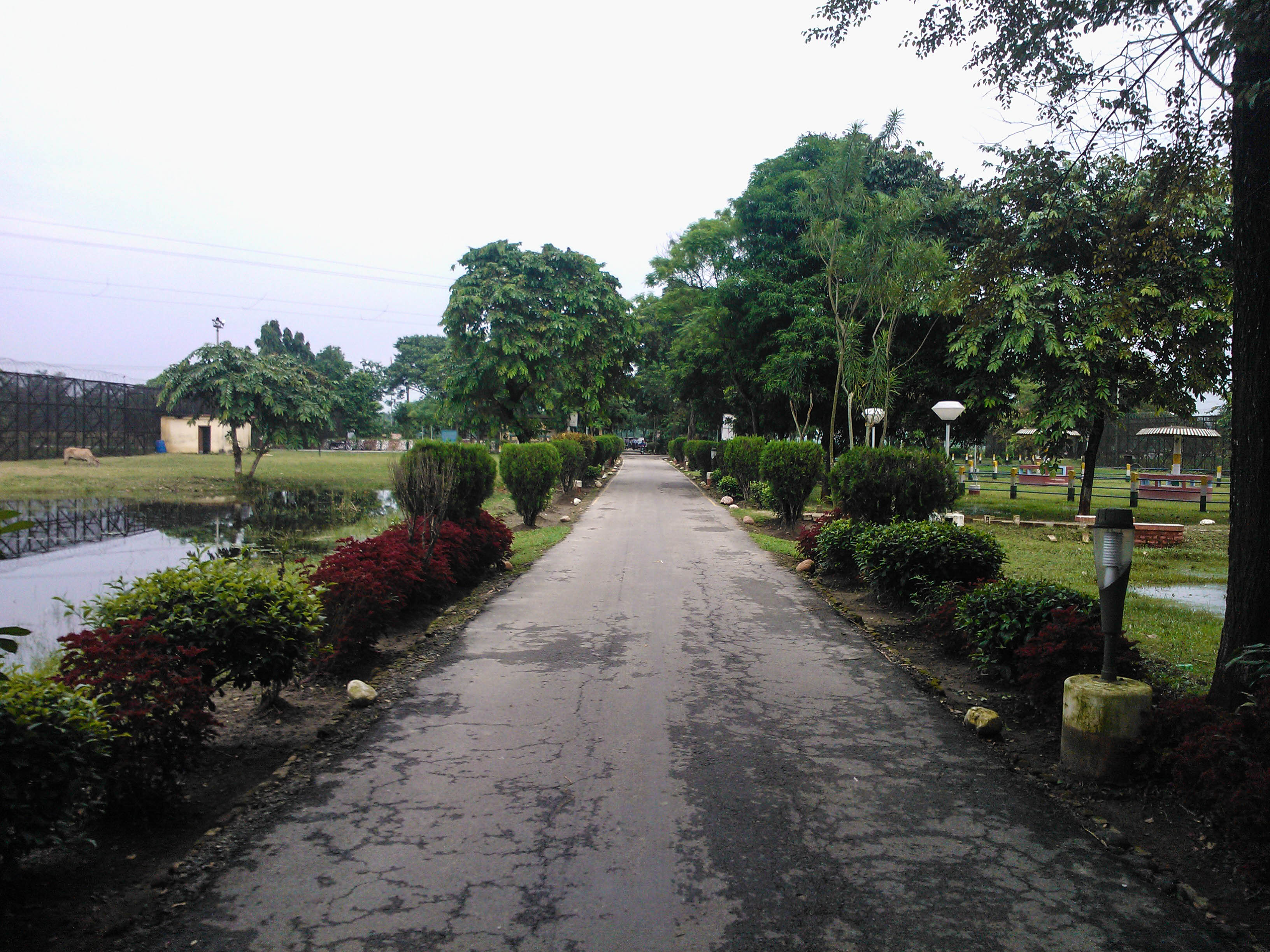 Tin Bigha Corridor (তিনবিঘা করিডর). The ‘Tin Bigha Corridor’ connceting the Dahgram-Angarpota enclave with mainland Bangladesh.